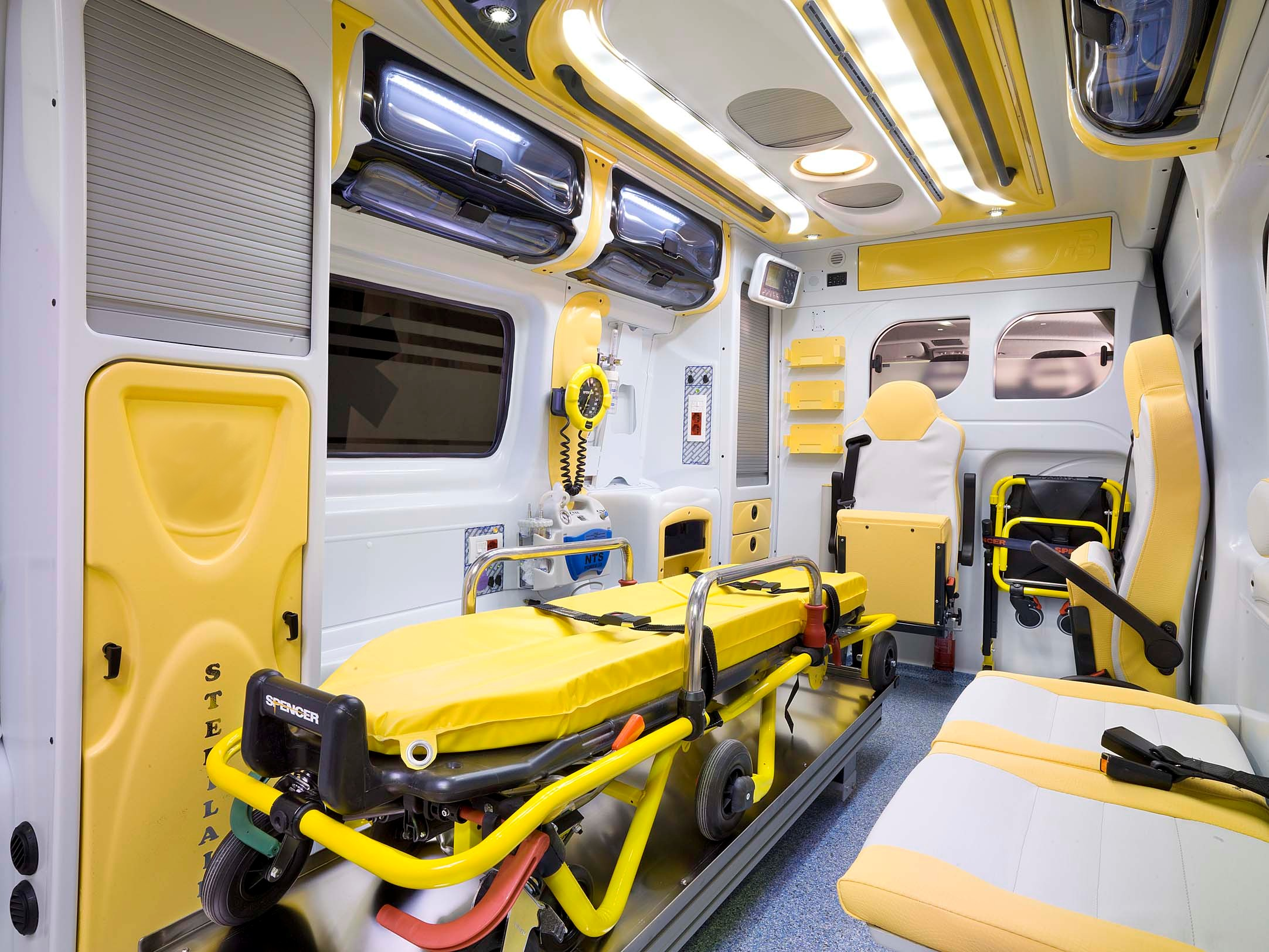 Ambulances Interiors